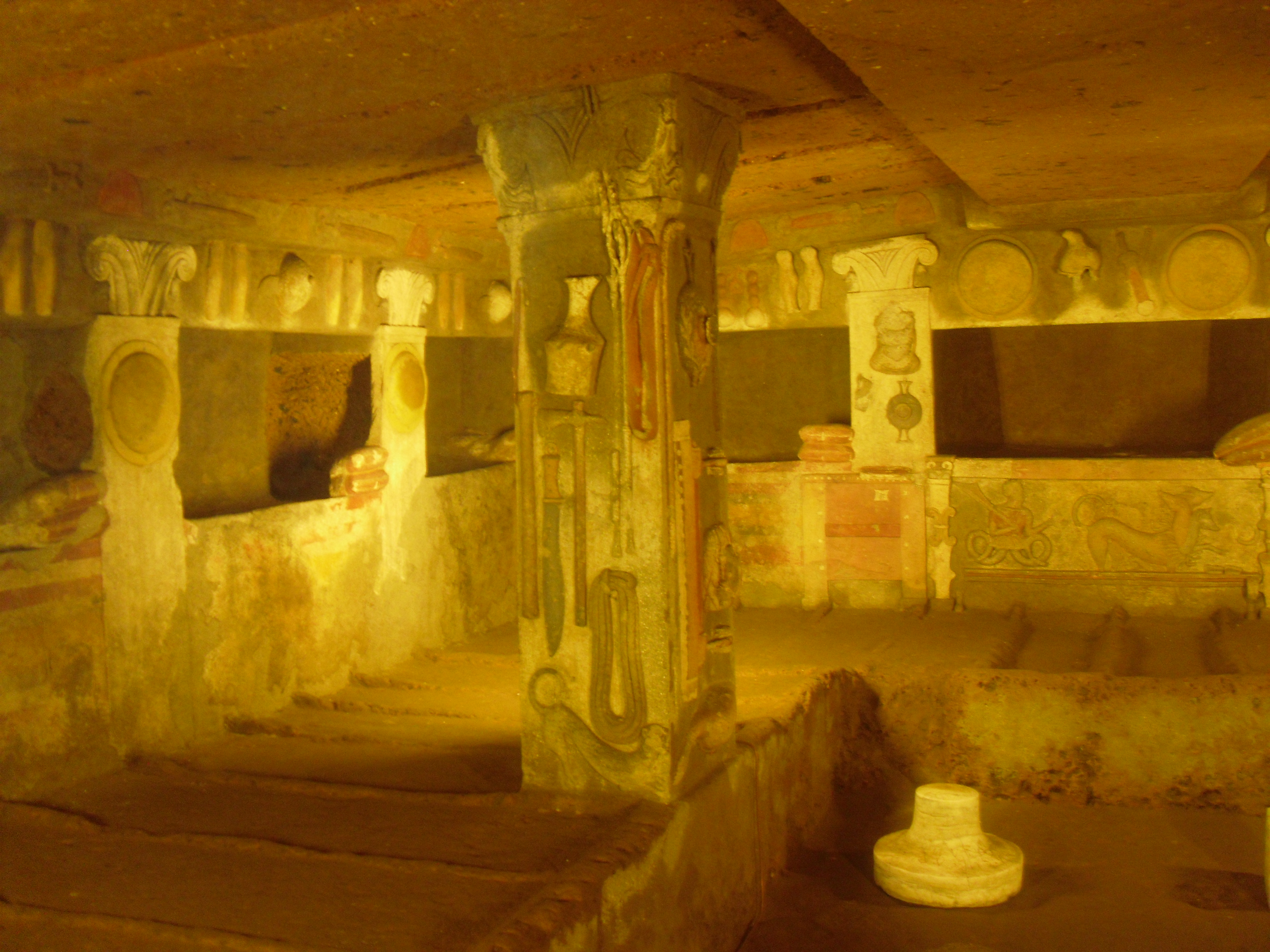 The inside of "Tomba dei rilievi", an ancient Etruscan tomb in the necropolis of Banditaccia